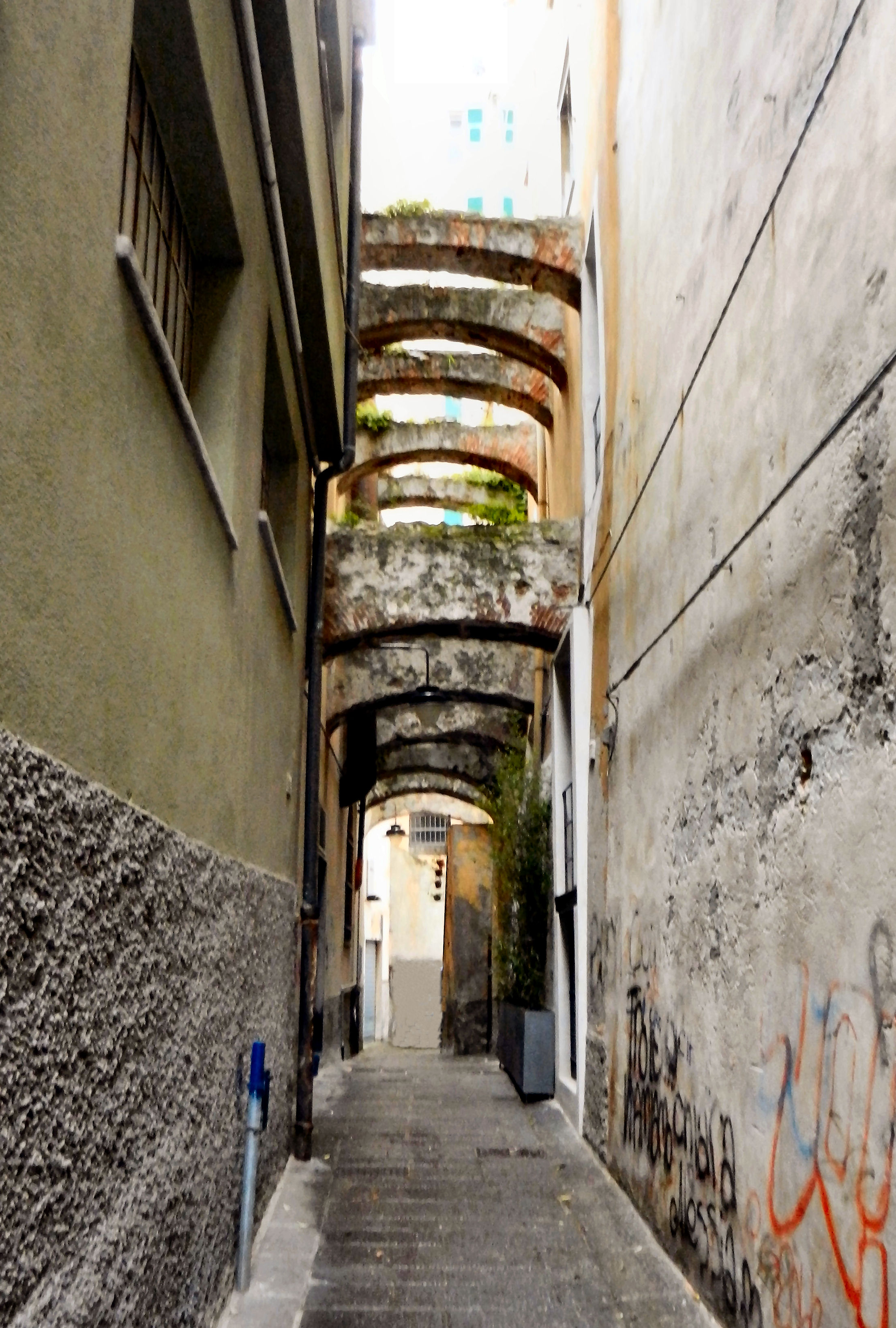 Genoa, Italy, quarter of Molo, vico Bottai